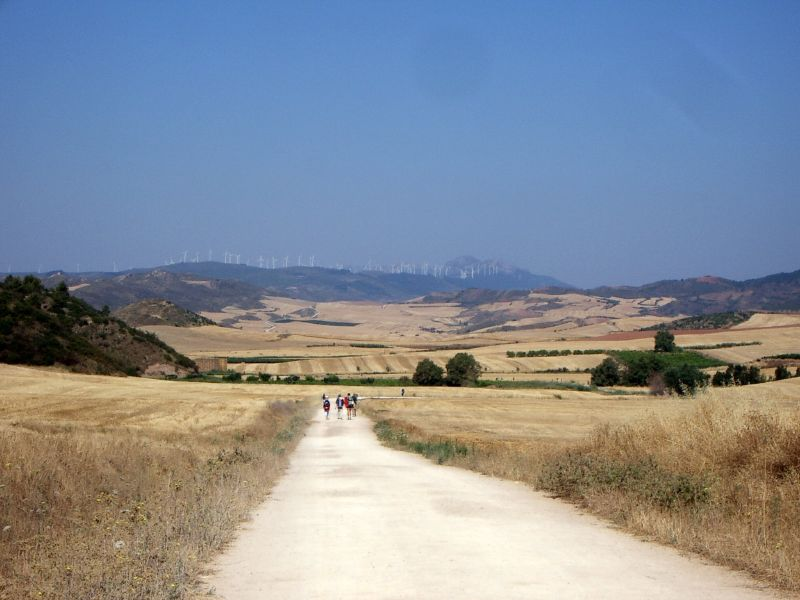 Pilgrimage to Santiago de Compostella near Los Arcos (section Estrella ₋ Los Arcos, Navarra, Spain